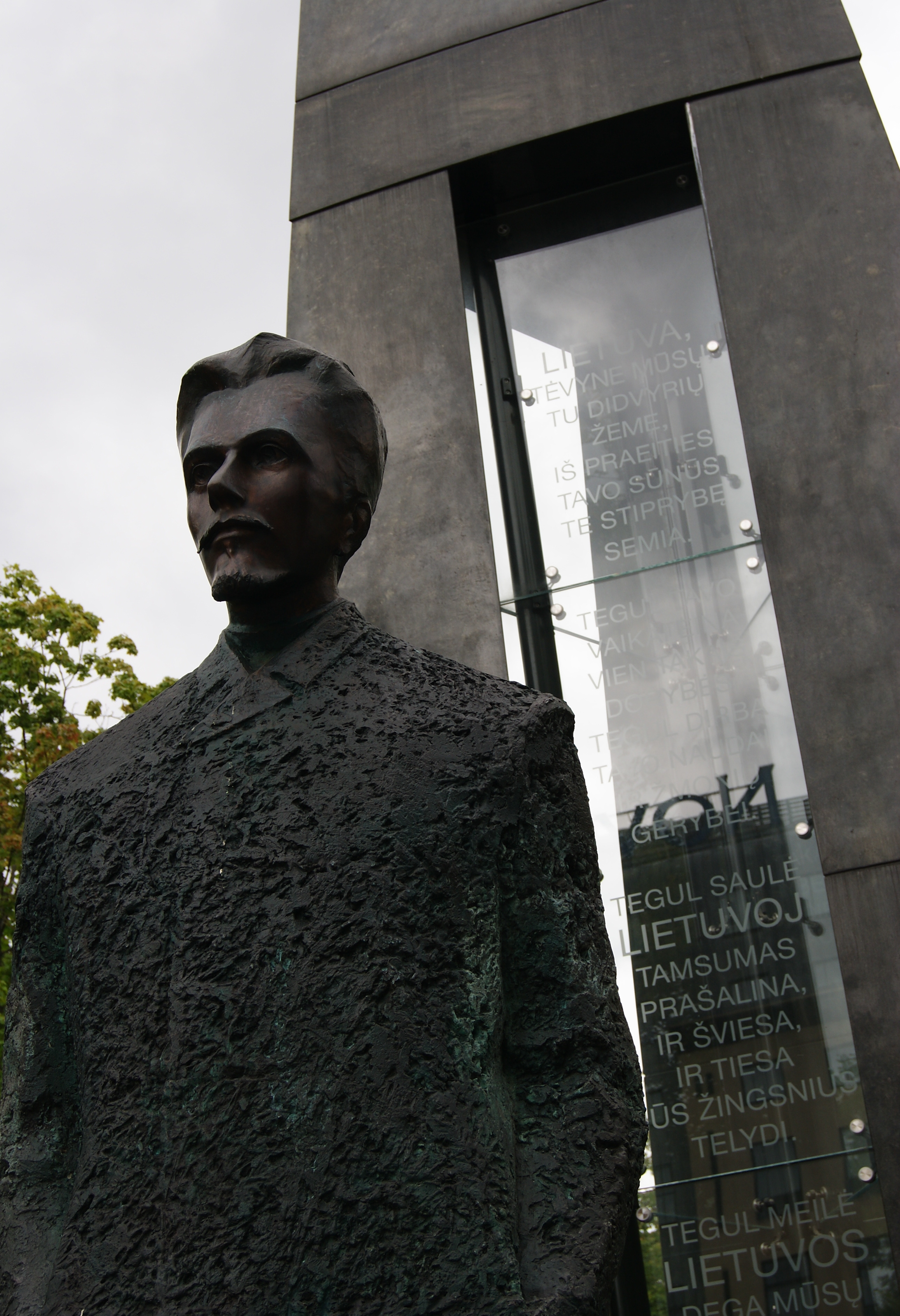 Read the story of this trip on !